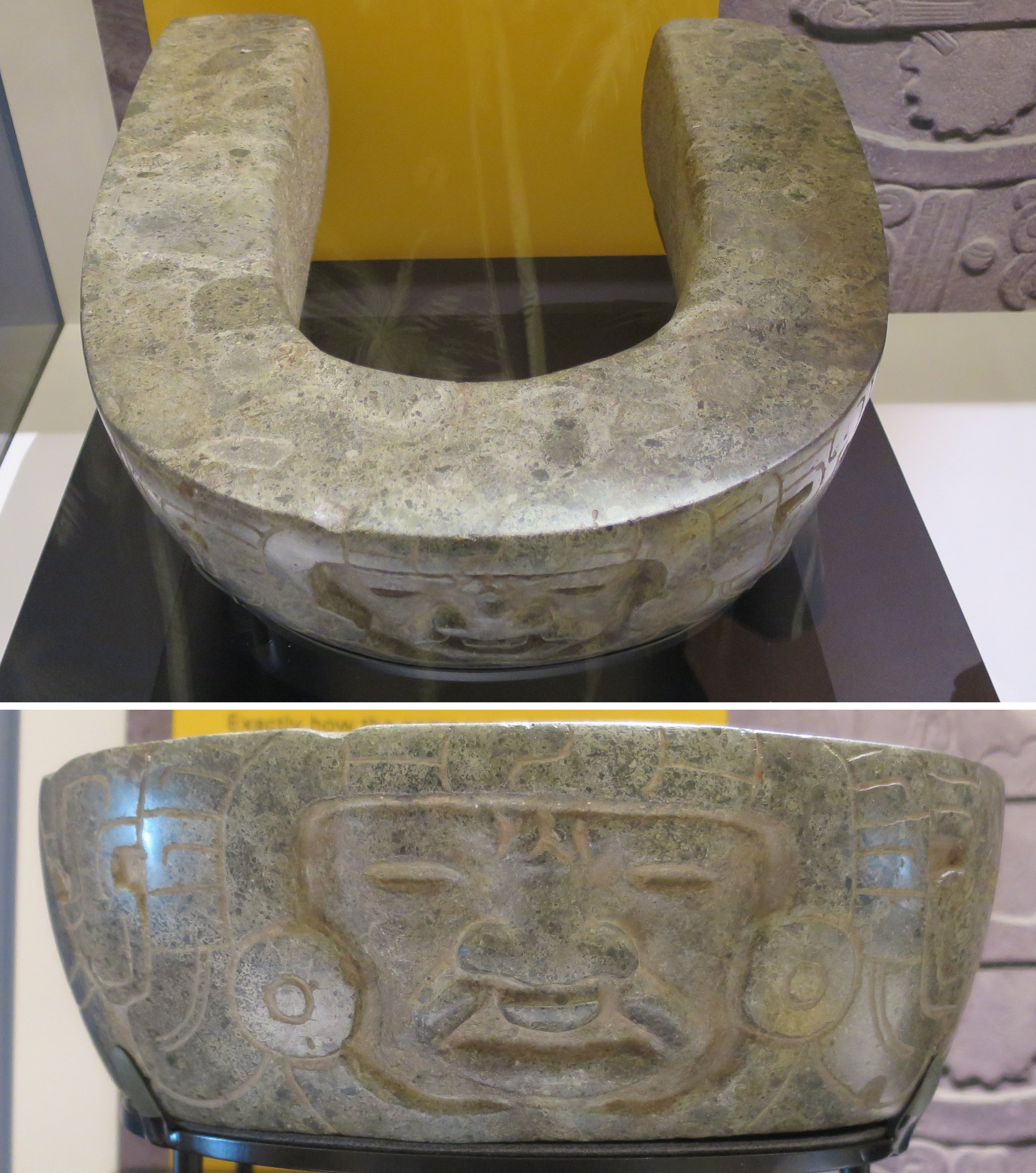 Mayan carved stone yoke, Classic period, 900-1521 CE, National Museum of the American Indian